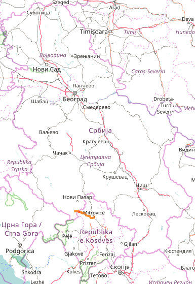 OpenStreetMap of State Road 32 in Serbia.